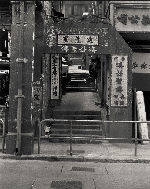 Tik Lung Lane, in Wanchai, was located off Queen's Road East. The site is now part of Wu Chung House.